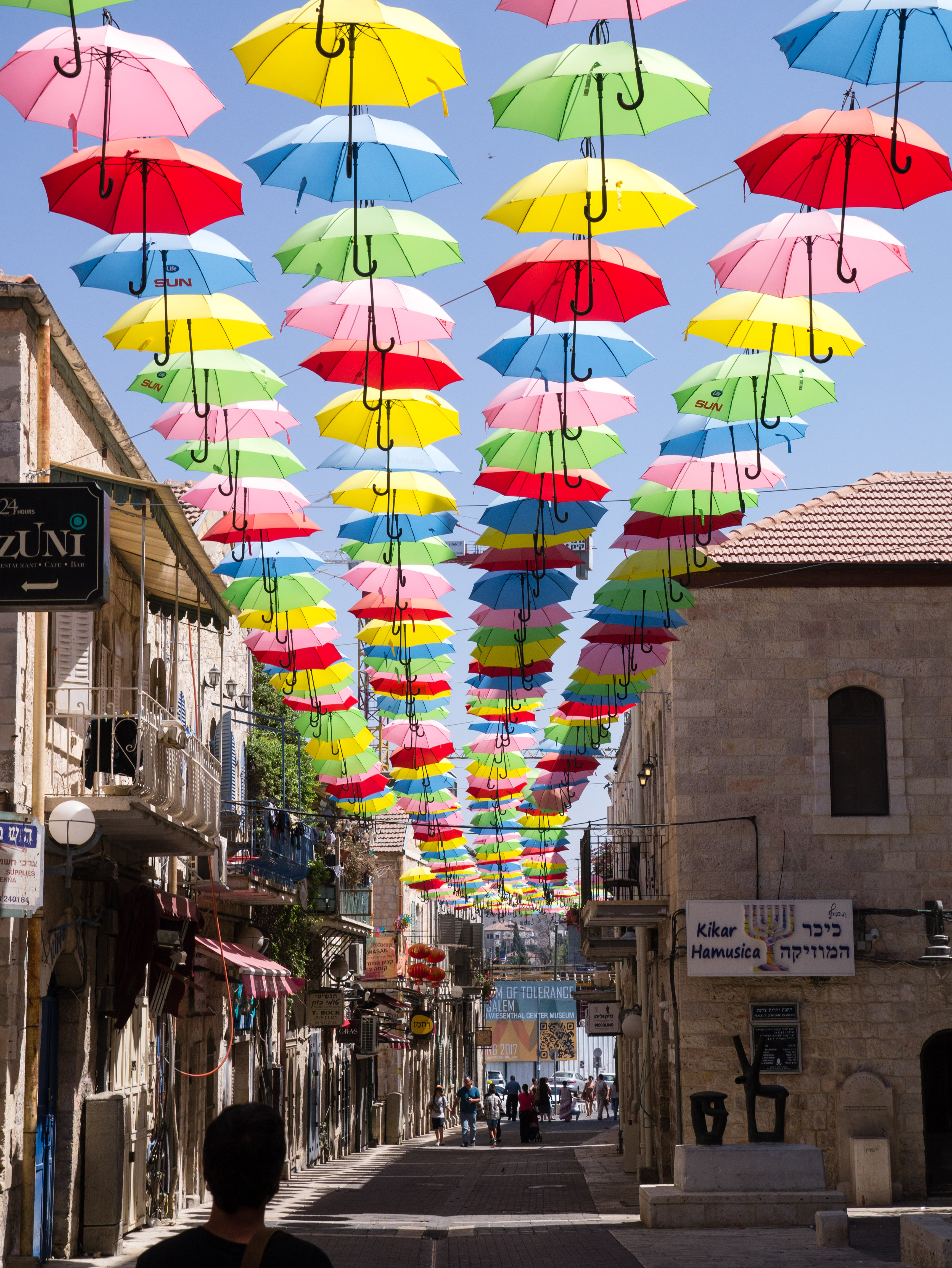 Yo'el Moshe Salomon street.